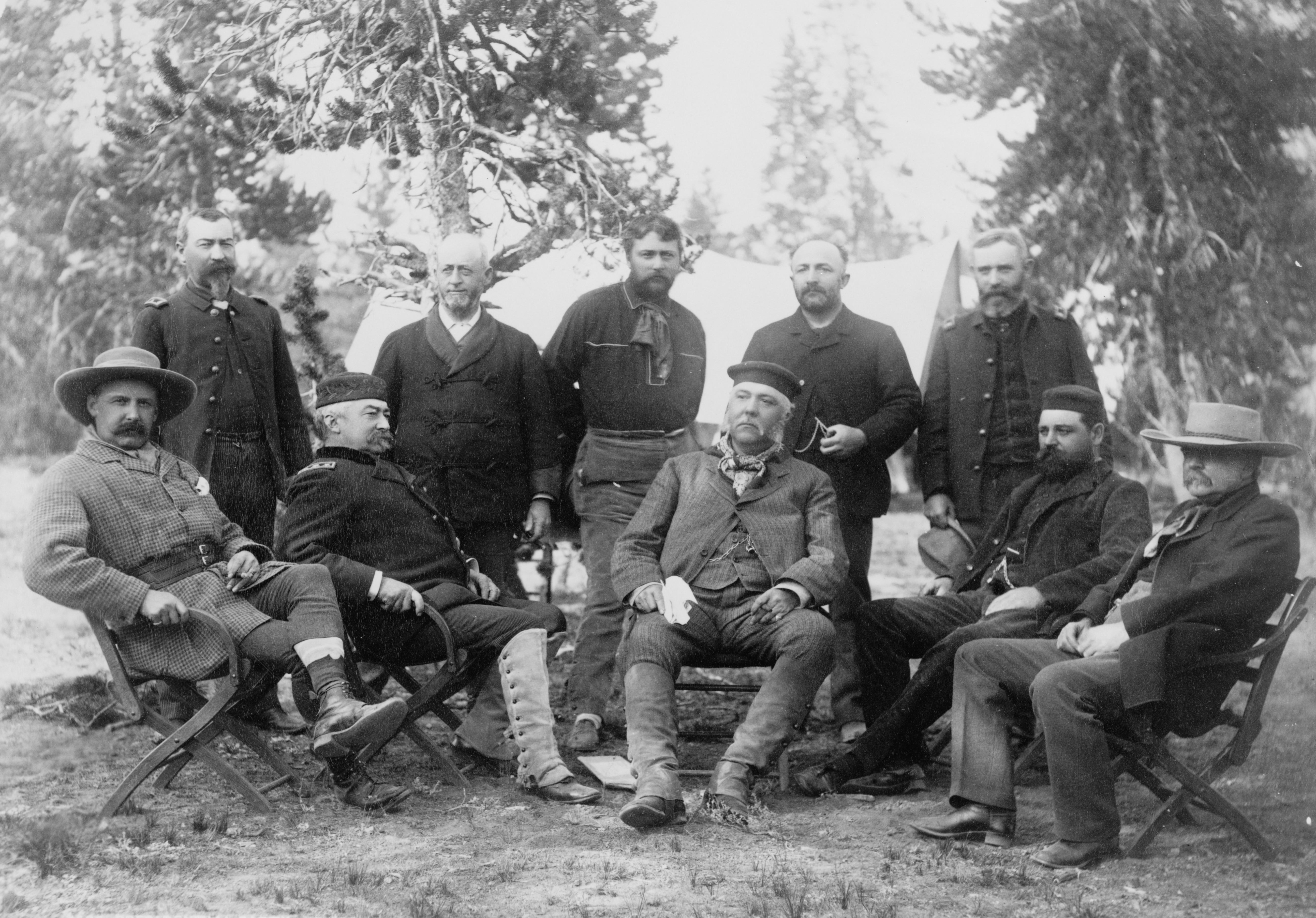 Group portrait of members of Chester A. Arthur's expedition to Yellowstone National Park. Left to right: John Schuyler Crosby, Lt. Col. Michael V. Sheridan. Lt. Gen. Philip H. Sheridan, Anson Stager, unidentified, President Arthur , unidentified, unidentified, Robert Todd Lincoln, and George G. Vest. Unidentified men may be Daniel G. Rollins, James F. Gregory, W.P. Clark, W. H. Forwood, and/or George G. Vest, Jr.